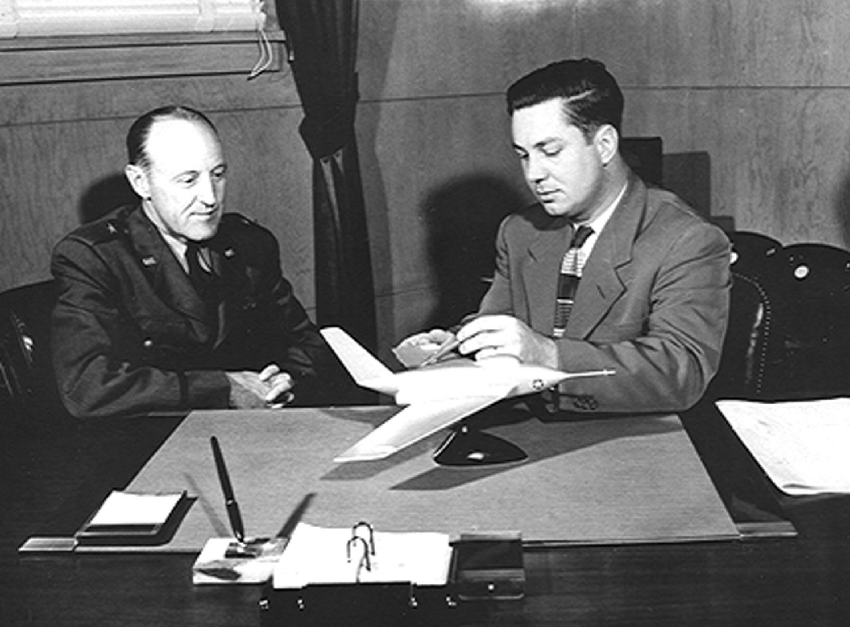 Dryden Flight Research Center Photo collection Walter C. Williams (behind model of Northrop X-4) with Brig. General Albert Boyd (1950)